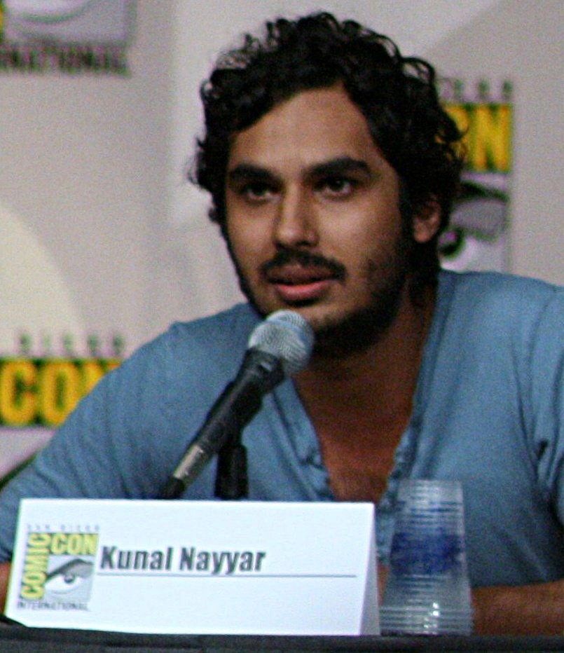 British actor Kunal Nayyar at the 2009 Comic-Con